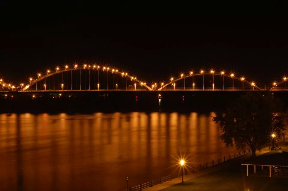 Centennial Bridge at night from Davenport.